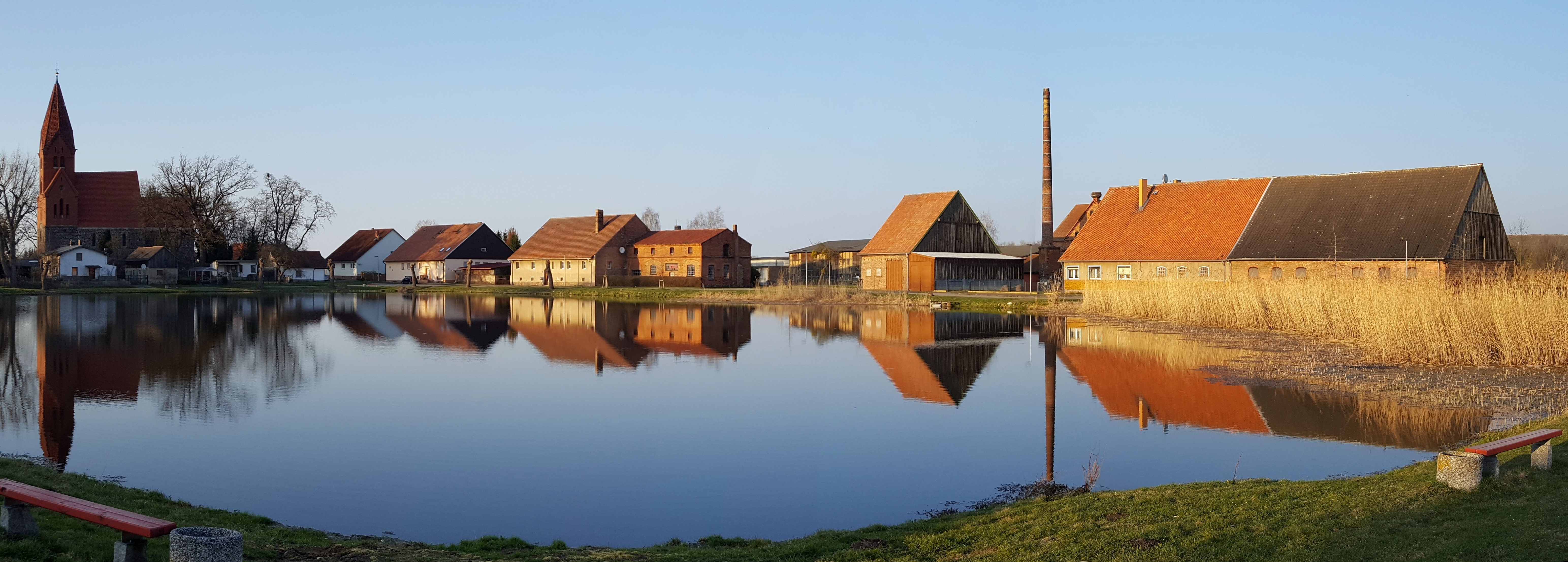 South-western view of the village pond in Mürow , Angermünde municipality , Uckermark district, Brandenburg state, Germany.